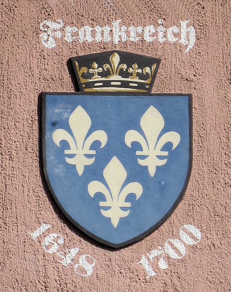 The Bourbon lilly at the Breisach town hall